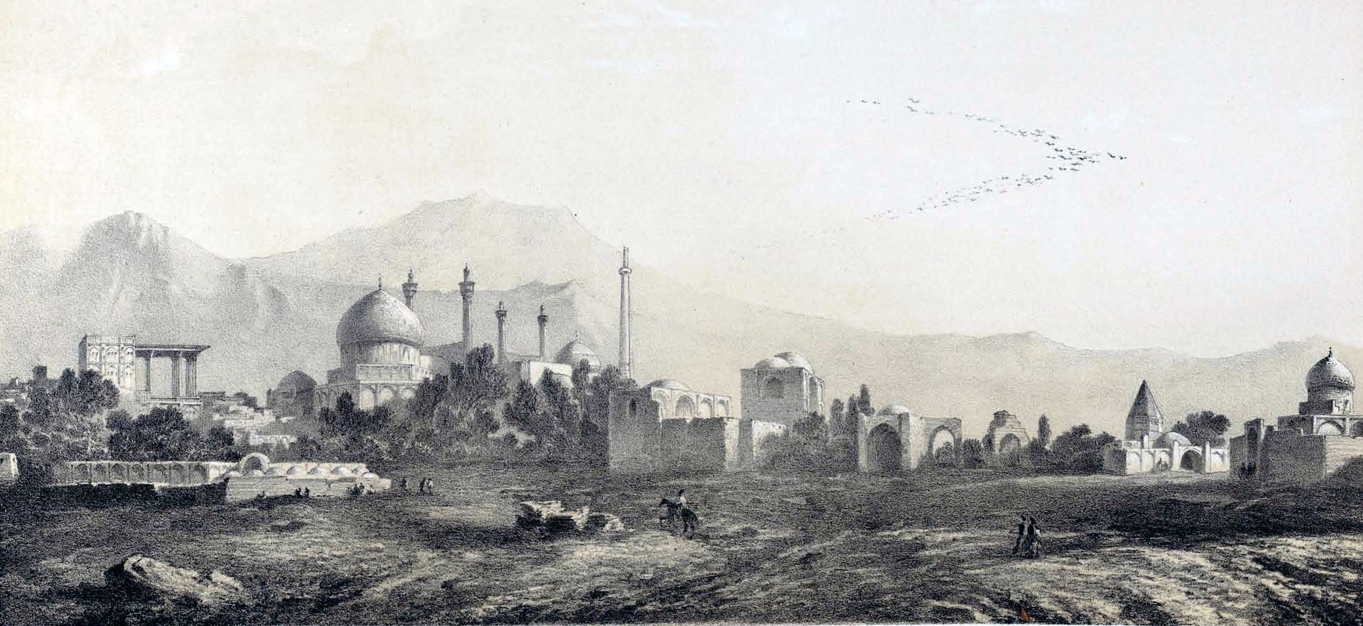 Isfahan to the south side